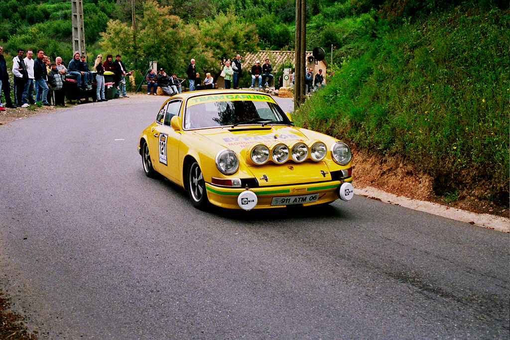 Porsche 911 - Retro-classic Pegomas-Tanneron 2005. I (User:Ericd) took this picture myself with a Minolta Dynax 5 and a Minolta 28-100 G lens on Fuji Superia X-Tra 800. The picture was scanned from negative. Photograph available under GFDL license. You don't need my permission to reuse it, but don't claim that you took the photo yourself.